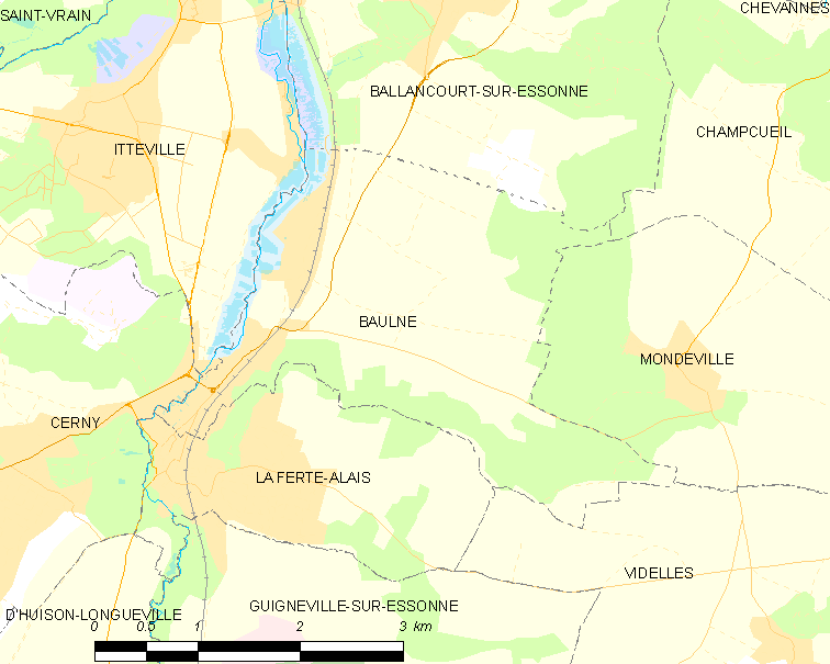 Map of French municipality Baulne